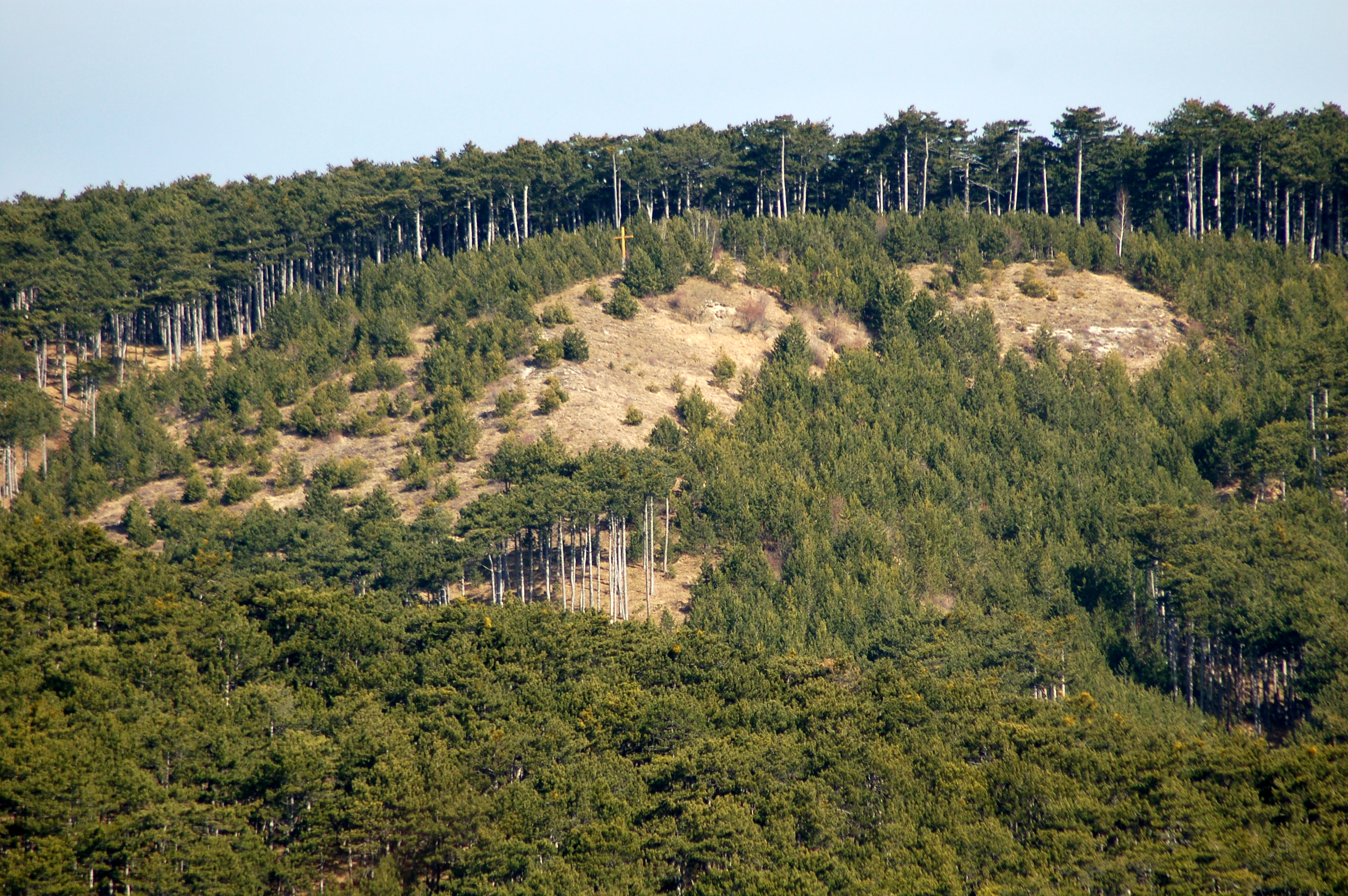 Florianikreuz, Waldegg, build in 2004 in memorial to a large fire in 1984. The area burned down still is visible.